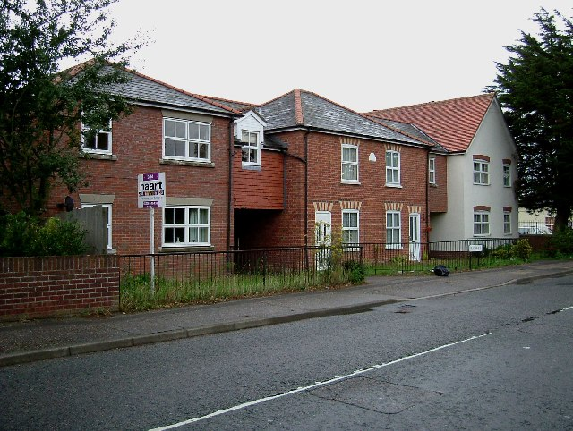 Rose Cottages. Located in Blackheath Colchester, 80 & 82 Blackheath, the middle two houses were the original Rose Cottage built in 1882 as farm labourers cottages. All mod cons included a brick built outside bake/wash house and earth closet. There was a slate roofed wooden stable block at the rear of the property. Not much more than 100 years later the outbuildings were demolished and the semi-detached house was turned into a terrace with flying freehold’s to allow access to a car park at the rear.